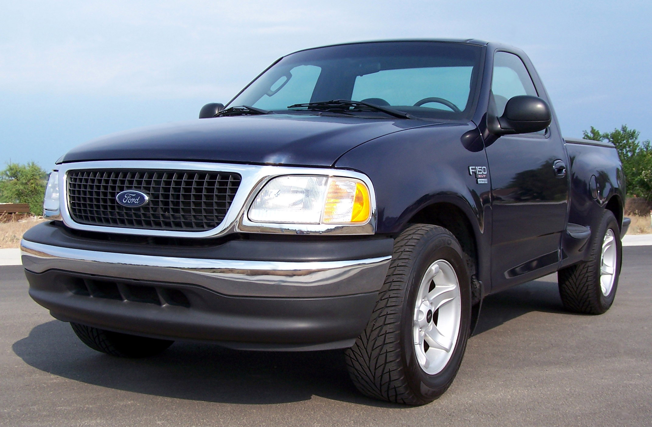 1999-2004 Ford F-150 (front view)